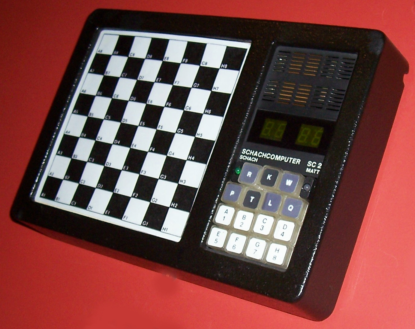 East German chess computer SC2